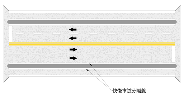 Taiwanese Guide Markings: Line Separating Fast and Slow Lanes